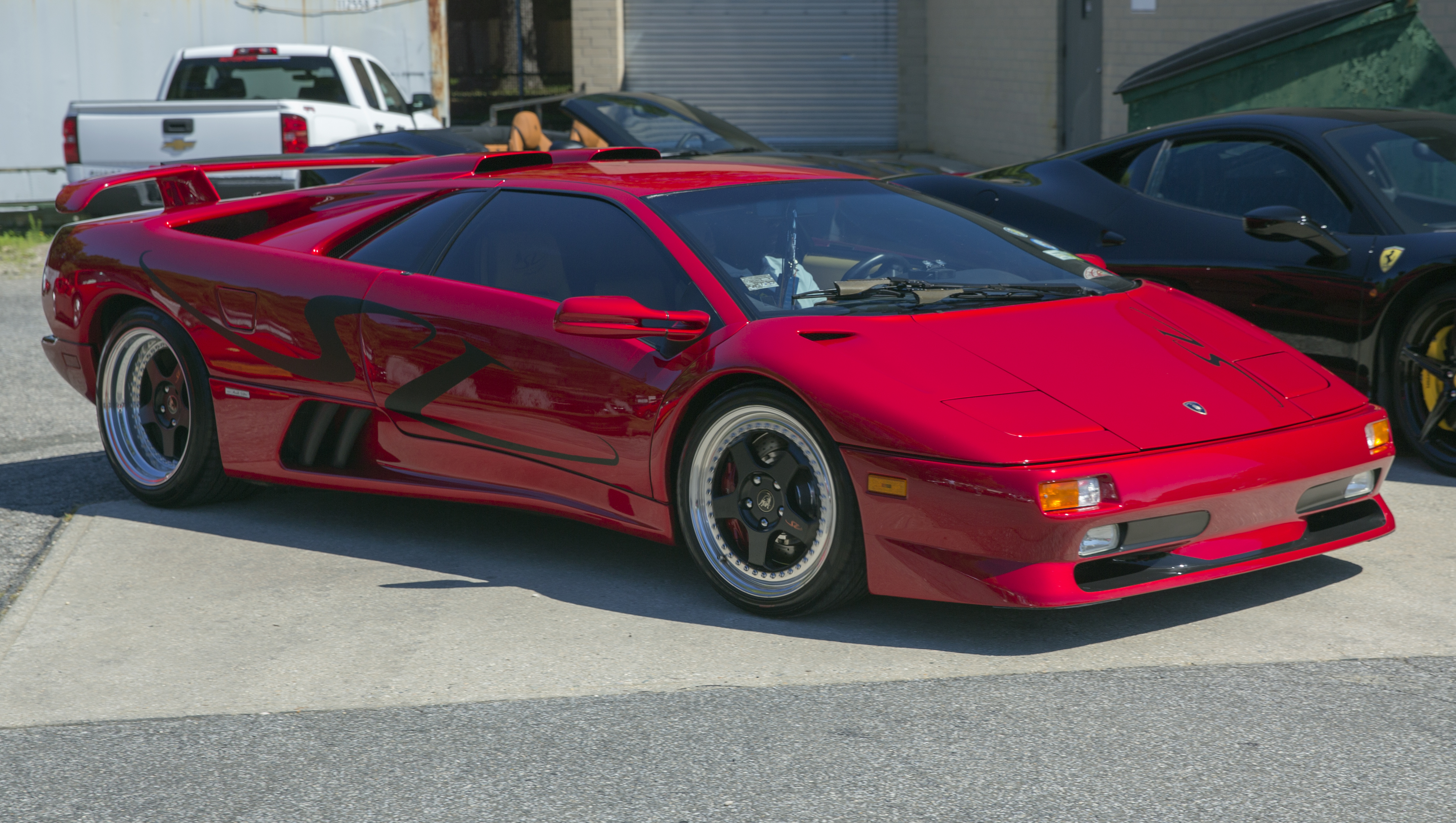 1998 Lamborghini Diablo SV Monterey Edition on O.Z. Racing Aluminum wheels. This one is Monterey Edition #5 of 20 and is finished in Rosso Vik, a metallic shade which changes from candy red to copper depending on light and angles, with Champagne leather interior. Speaking of lighting, it has a suitably Floridian feel in this shot. The car also has a carbon fiber gear shifter, a leather luggage set, Brembo 15-inch drilled disc brake set, and a custom made Quick Silver exhaust system. The Monterey featured some SE30 parts added to the SV and is part of why Lamborghini didn't build a single "regular" car in over a decade.